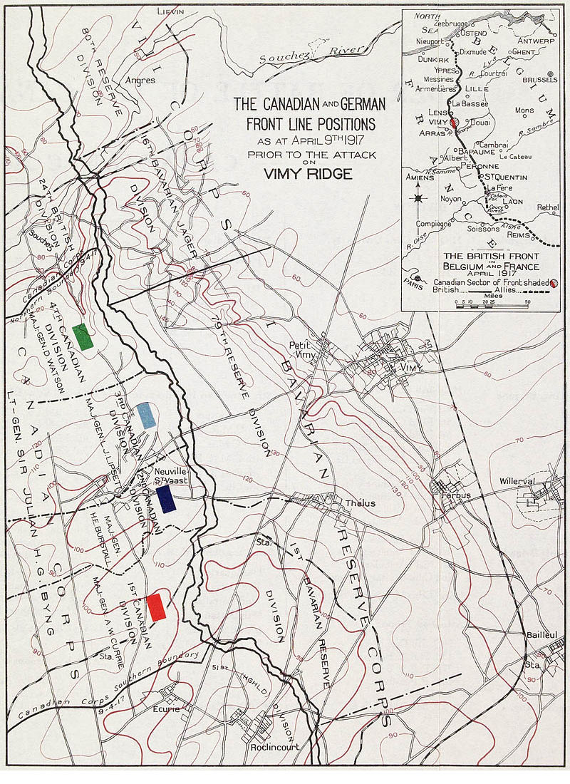 Summary position of Canadian Corps and German Group Vimy at Zero Hour, 9 April 1917